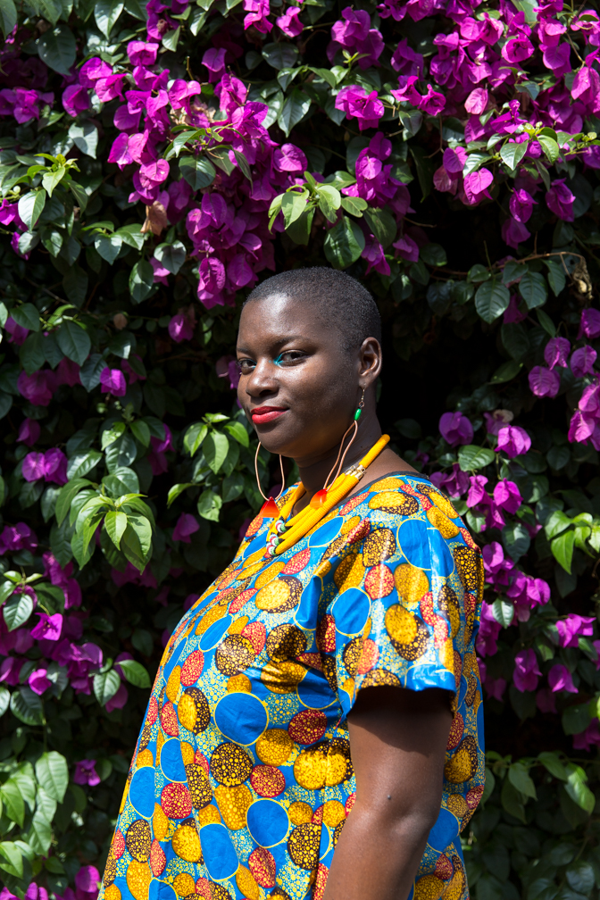 Portrait of artist Kenyatta A.C. Hinkle by Tiffany Smith